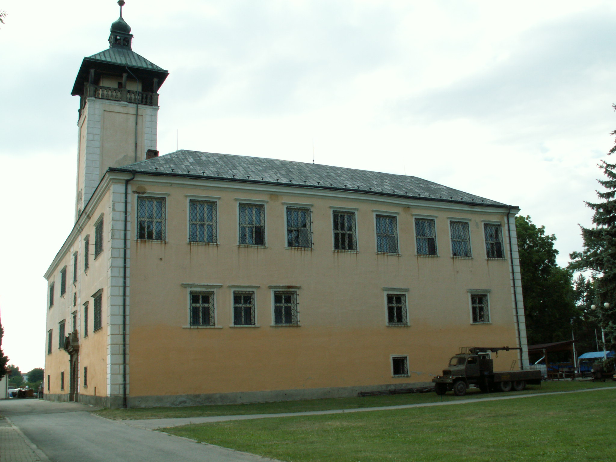 Dřevohostice (Czech Republic, Přerov District) - castle